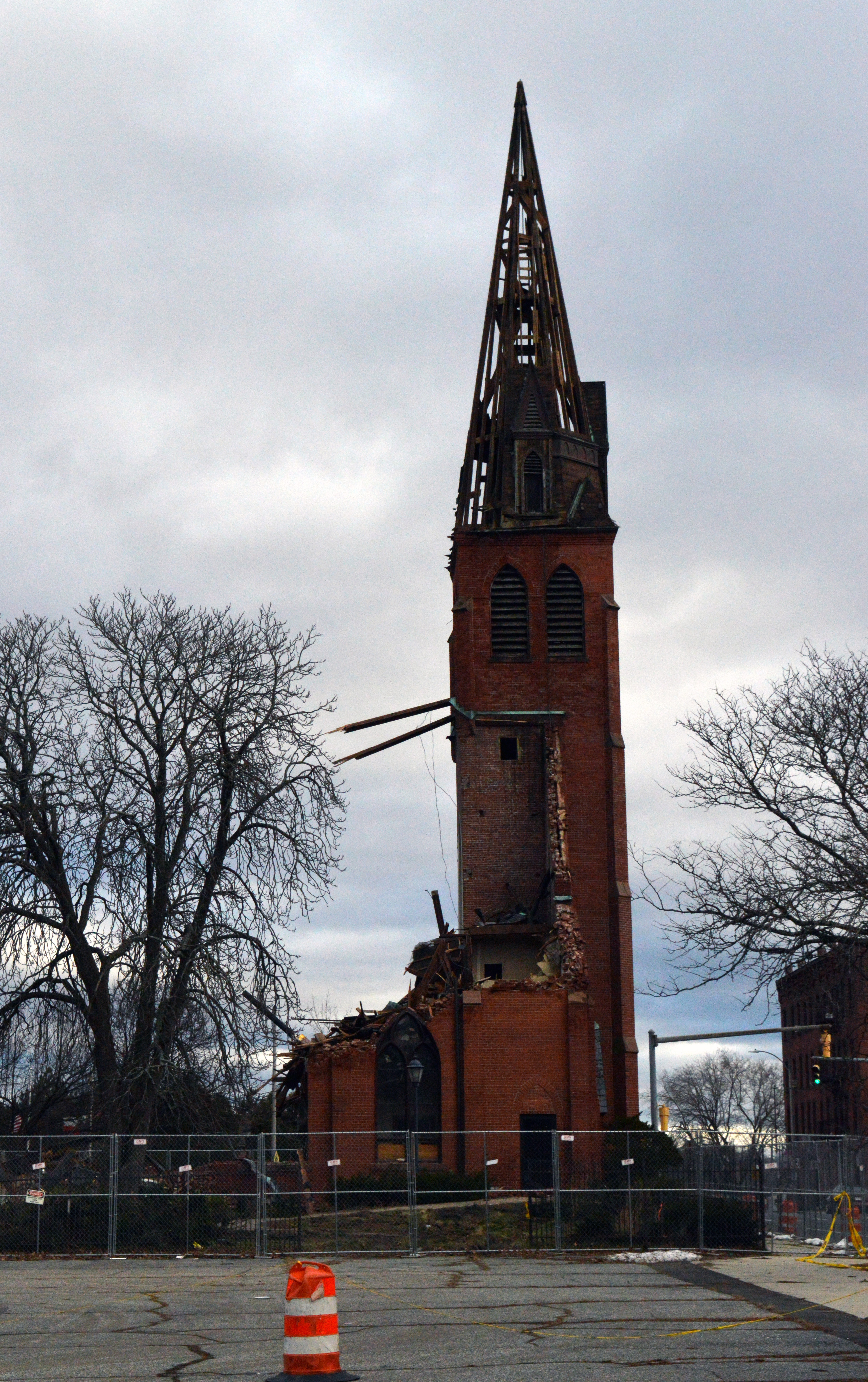 Mater Dolorosa Parish, Holyoke , standing following the demolition of the sanctuary and other building elements; previous debates about its sudden closure of the parish had centered around a diocesan claim that the steeple was structurally unsound and at risk of immediate collapse in 2011.]